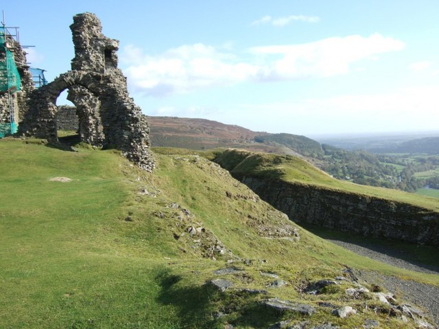 Castell Dinas Bran Showing remains of outer wall and moat.